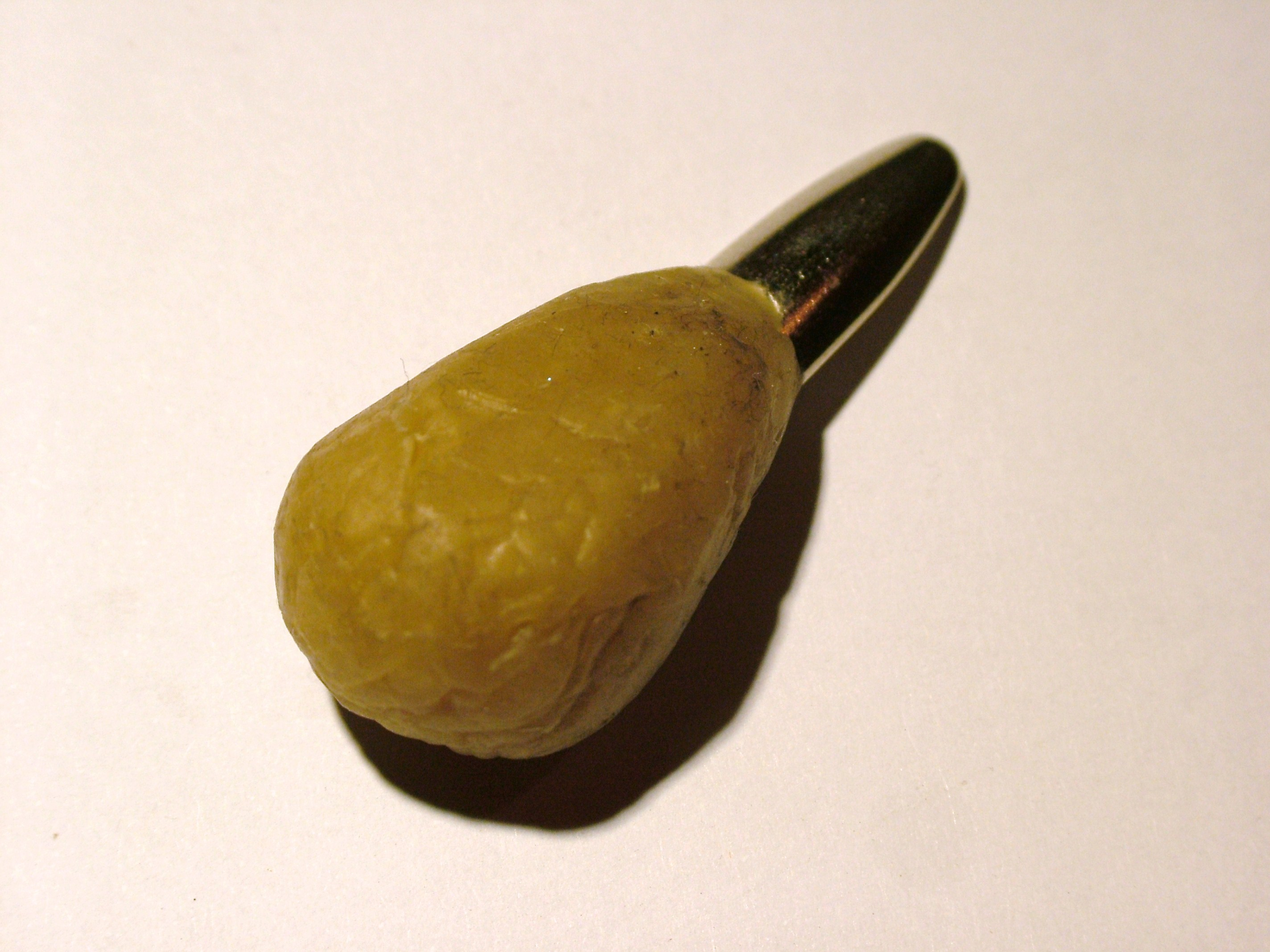 Picture of Mezrab, Zakhmeh, or Plectrum of Tar. A piece of brass covered by wax.